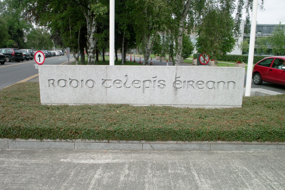 Picture of RTÉ Studios sign in Donnybrook